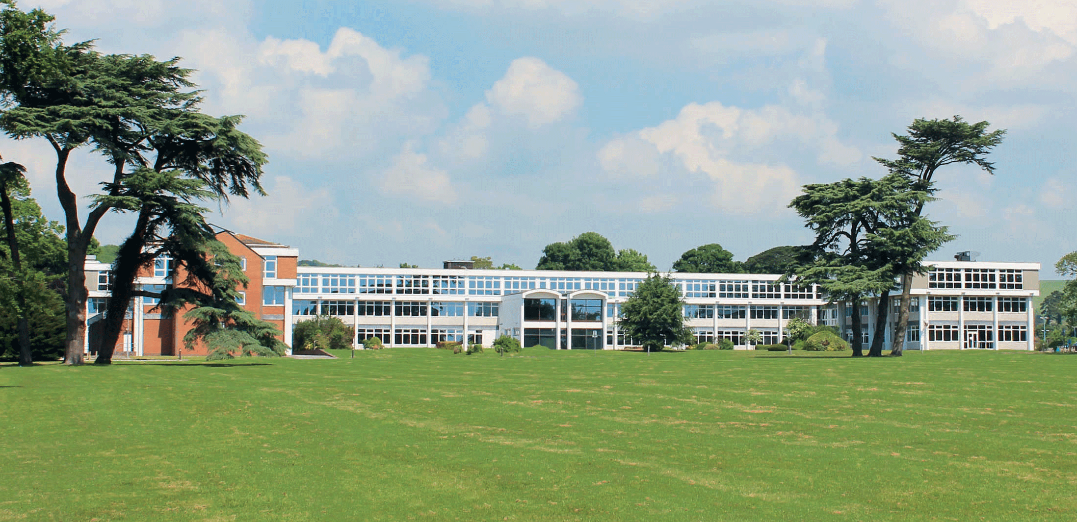 Worthing College